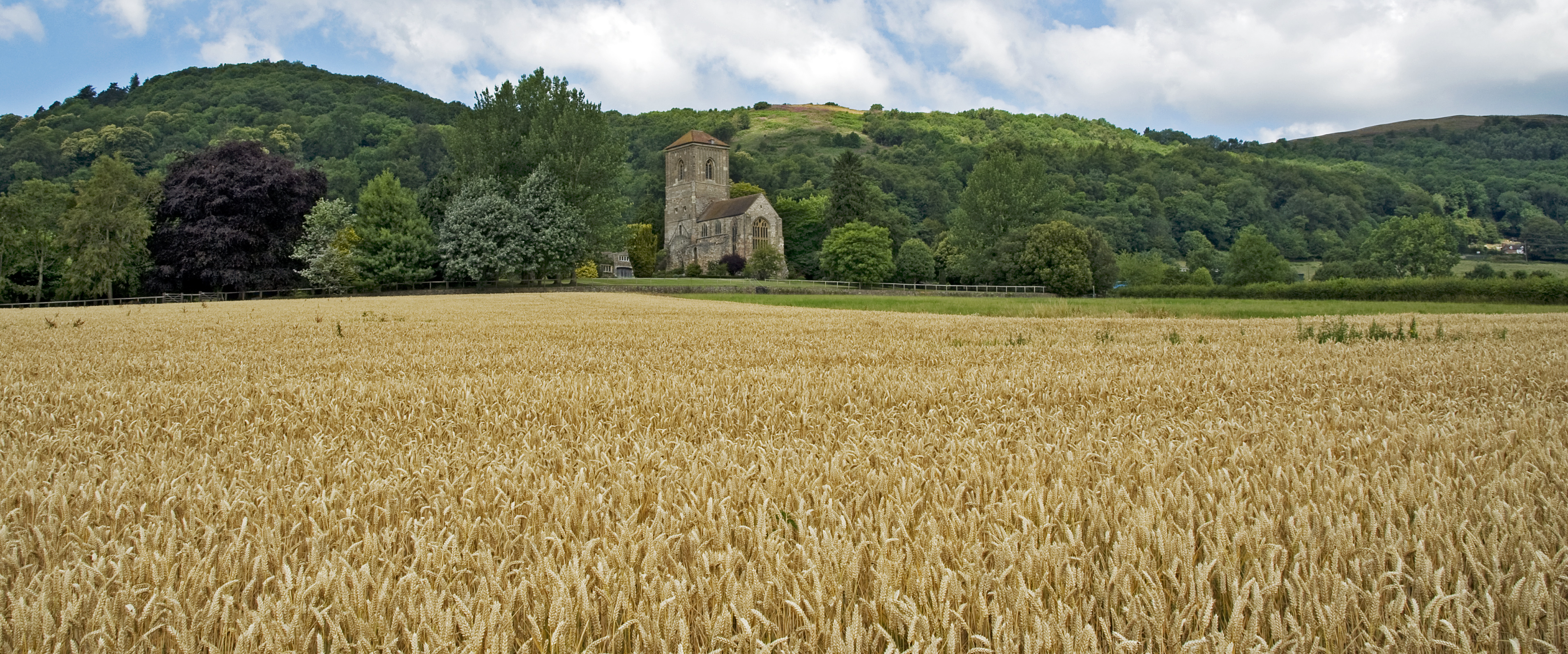 Panaorama of British Camp with Little Malvern Priory.